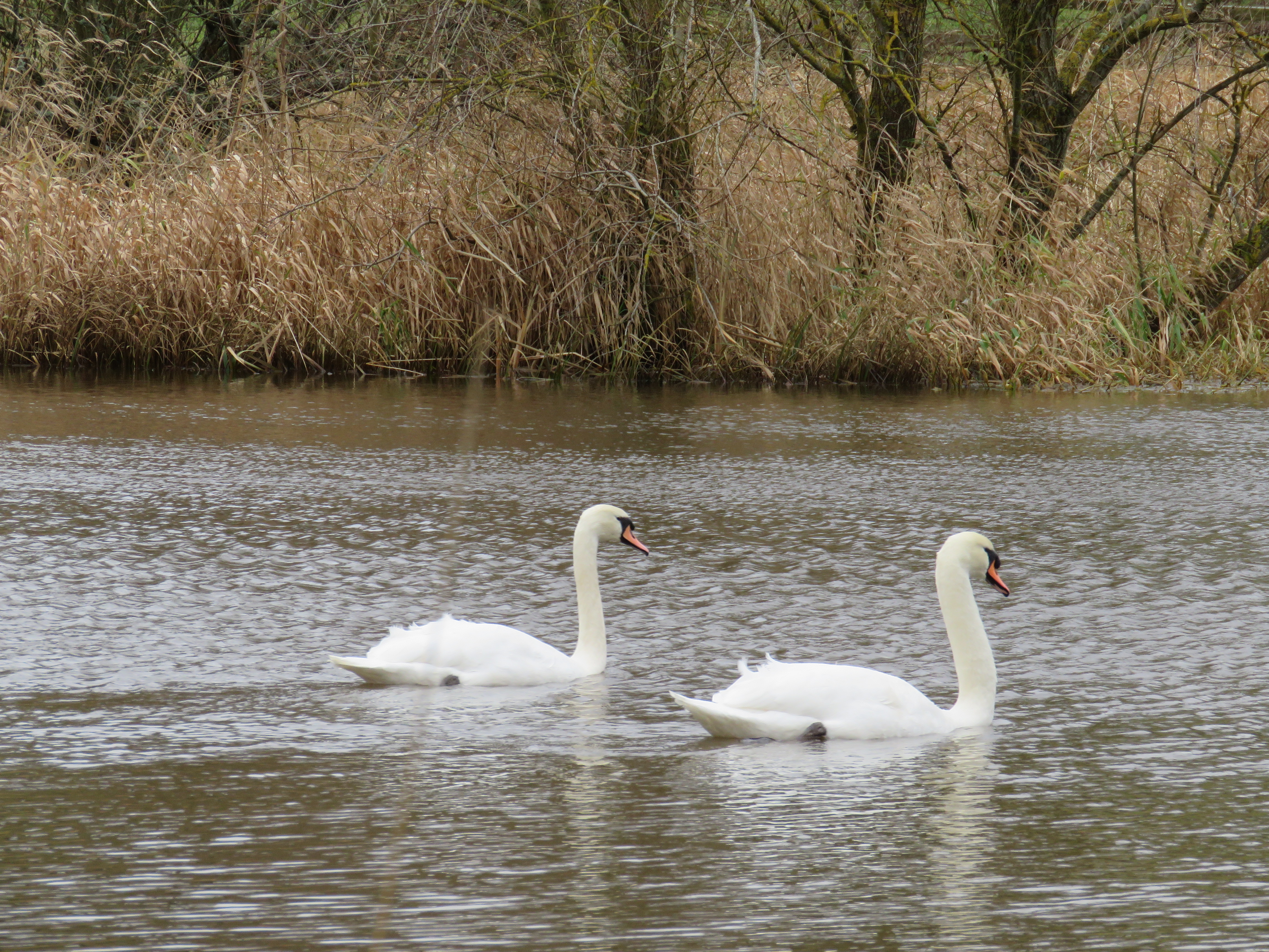 Swans, Yetholm Loch, Borders region, Scotland